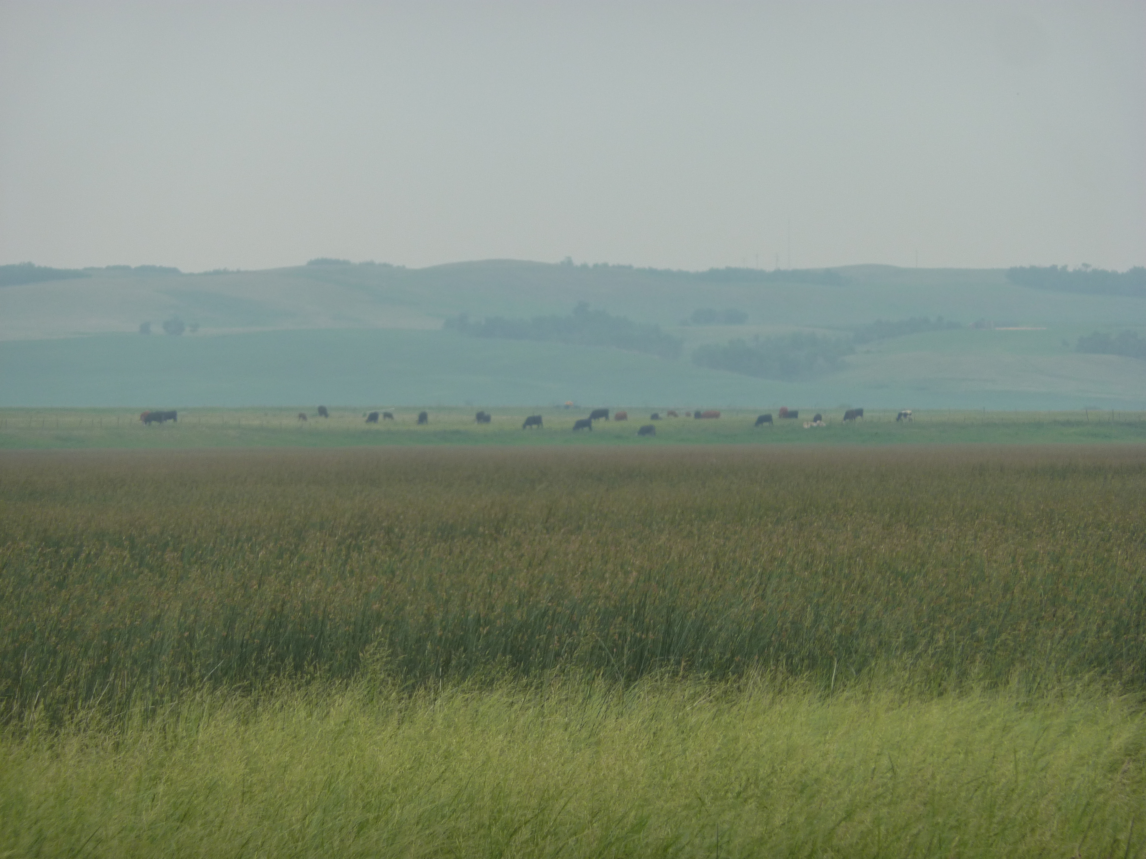 Cattle in the Municipal District of Provost No. 52